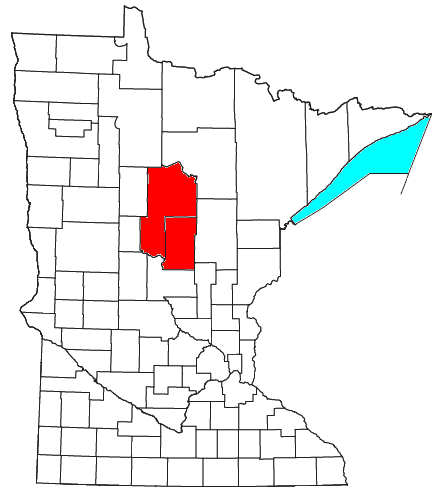 Locator map of the Brainerd Micropolitan Statistical Area in the southern part of the U.S. state of Minnesota.